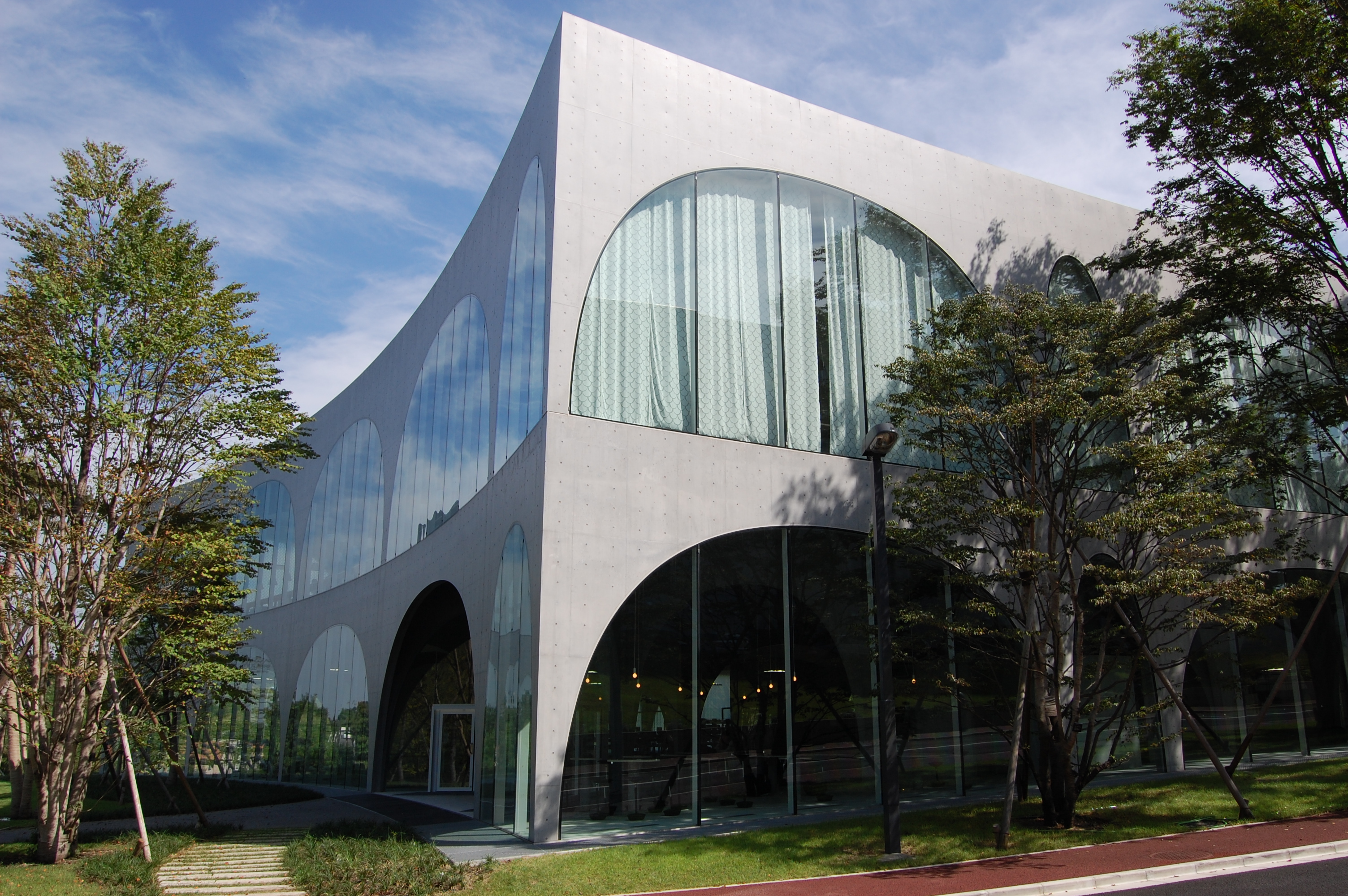 Tama Art University Library, at Hachiouji, Tokyo, Japan, designed by Toyo Ito in 2007.